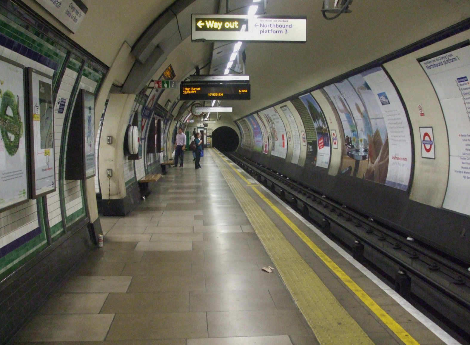 Kennington tube station northbound Charing Cross branch platform looking south